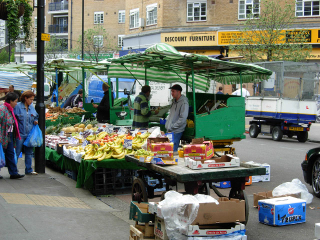 Church Street Market, Lisson Grove A typical London street market. This market specialises in fruit and veg from Monday - Thursday but expands to offer a wider range of products on Fridays and Saturdays.